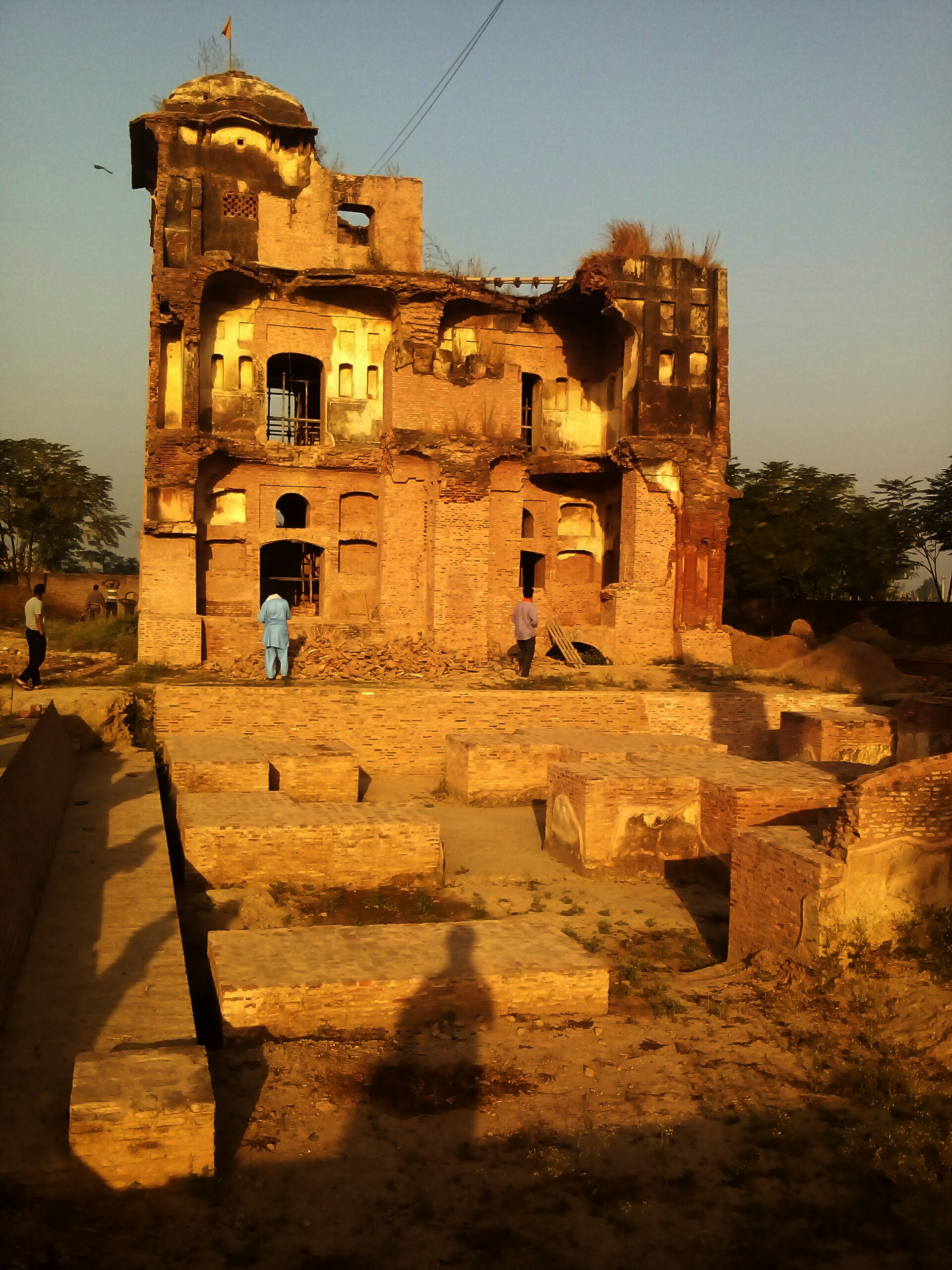 Jahaz Haveli of Diwan Todar Mal on the outskirts of Fatehgarh Sahib.